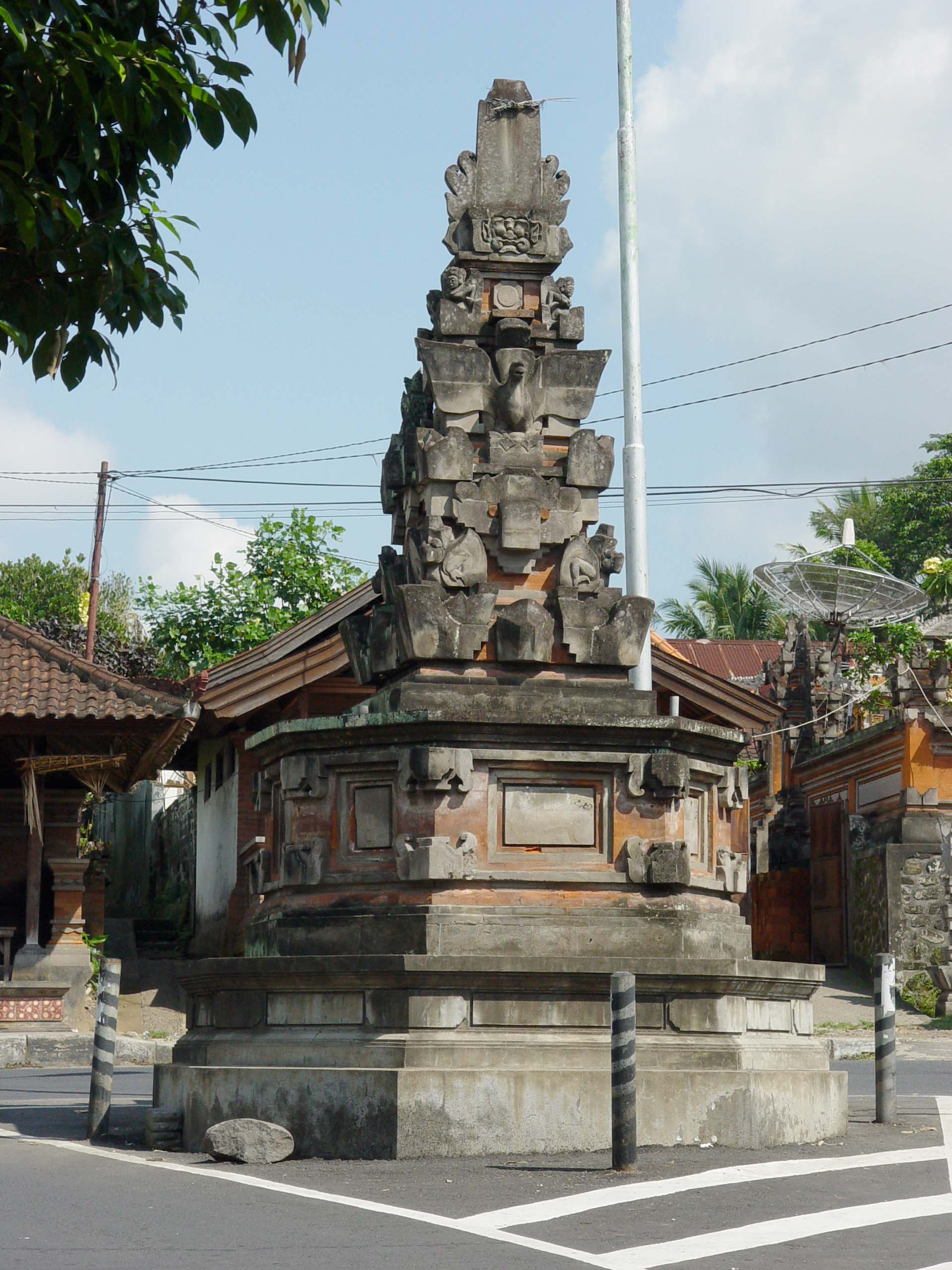 Kadewatan, Ubud, Gianyar, Bali, Indonesia July, 2005